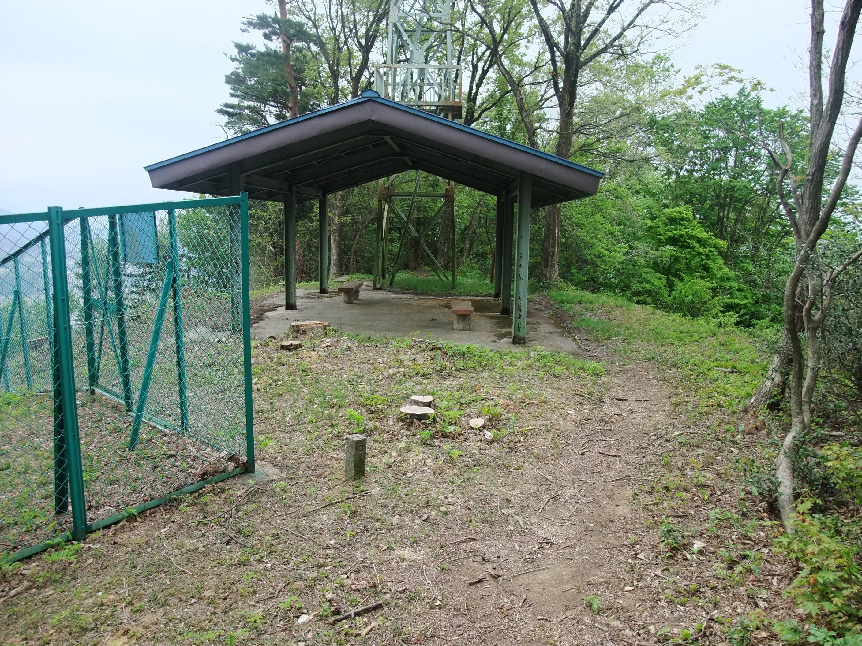 photo of Chiyogatameshi castle (Toyama-Japan)